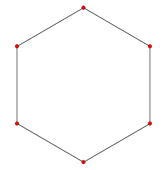 Expanded_2-simplex graph